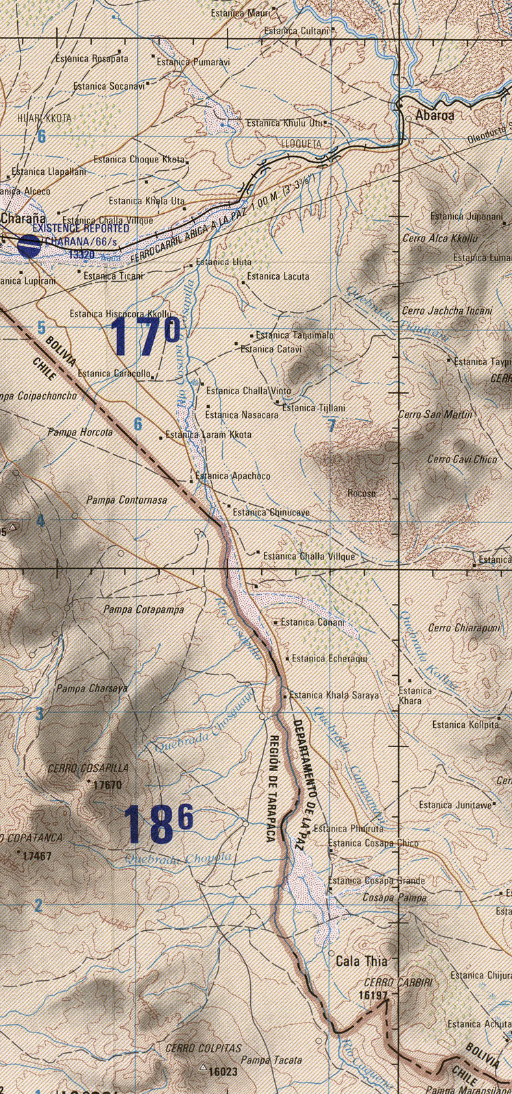 frontera Chile-Peru-Bolivia, Cosapilla River